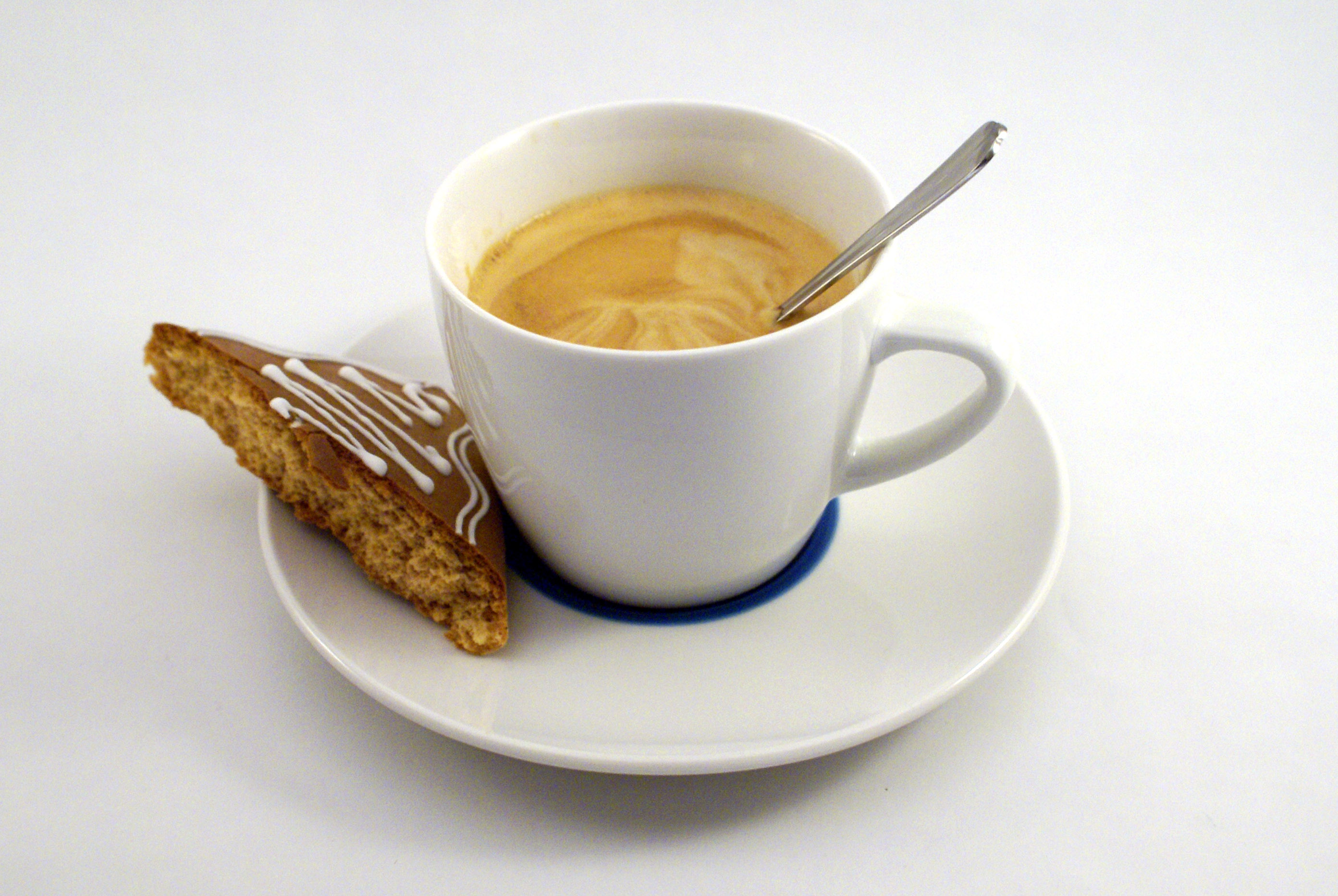 Coffee with a piece of Berner Honiglebkuchen, a traditional sweet from the canton of Berne, Switzerland.